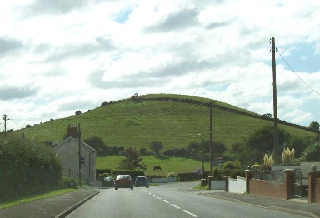 Banc-y-Warren. Banc-y-Warren is situated on the A487 at Penparc. A battle took place here in 1144 between the Welsh and the Normans.